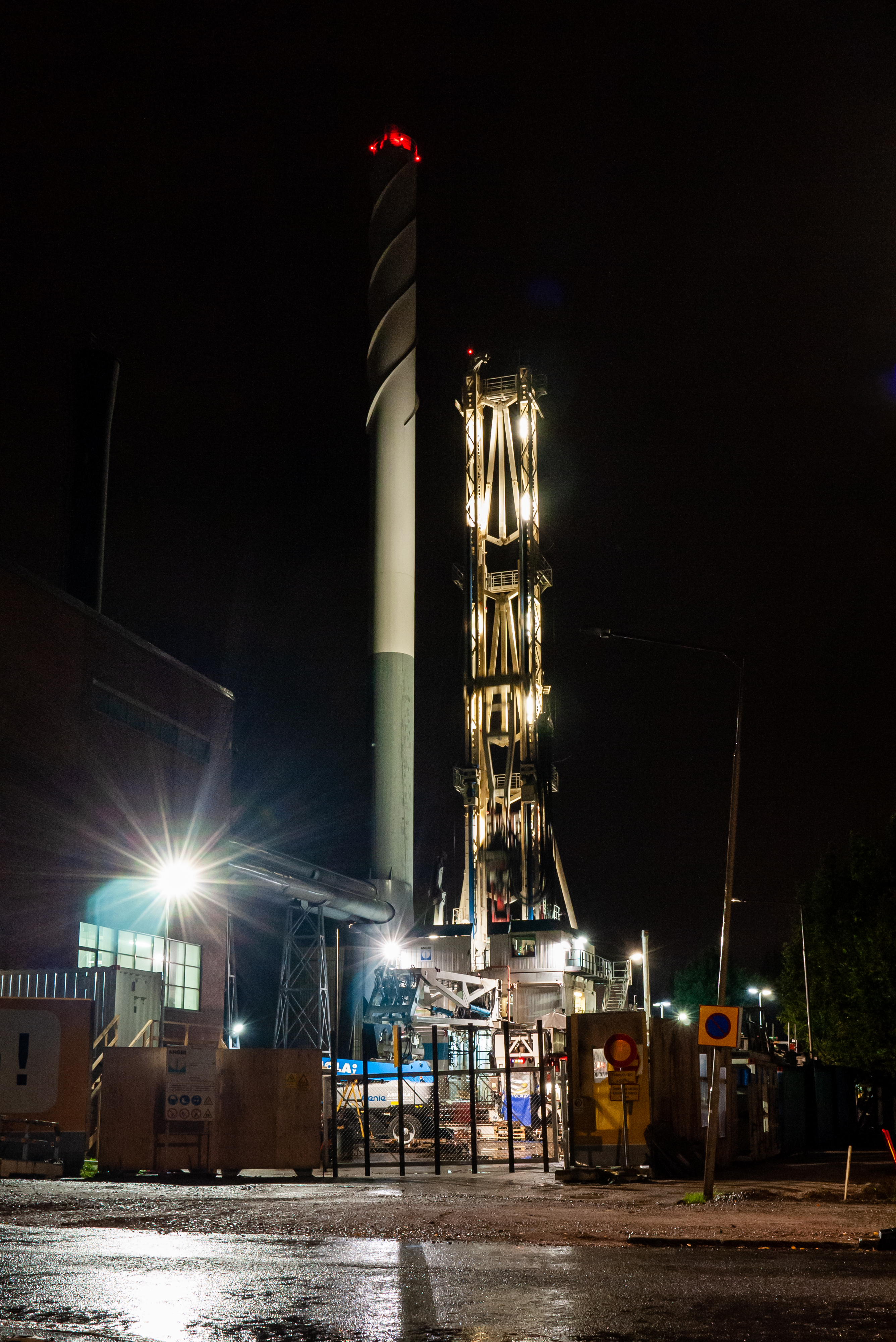 Drilling rig at St1's geothermal heat pilot project in Otaniemi, Espoo.